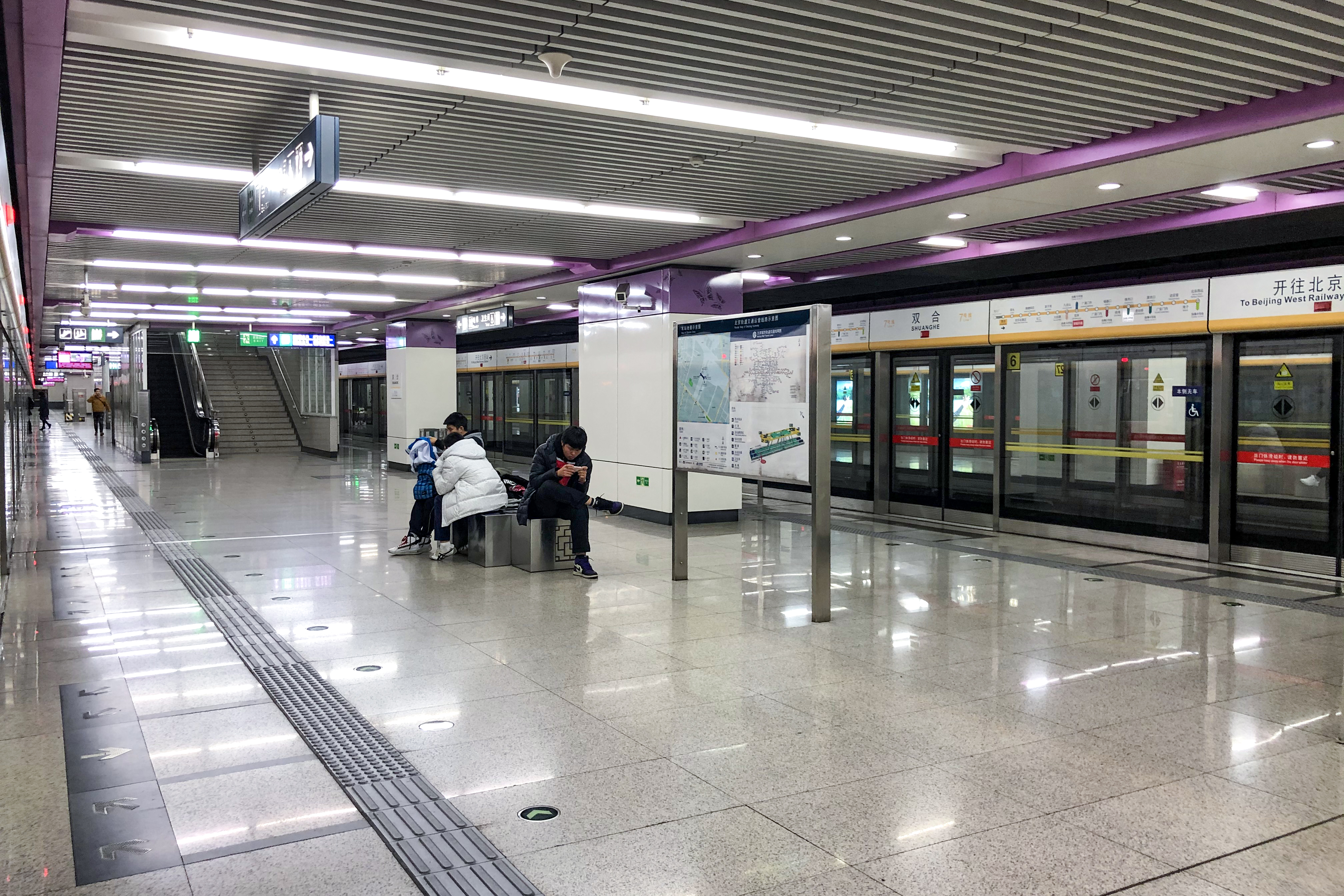 The middle track is for trains returning to depot.